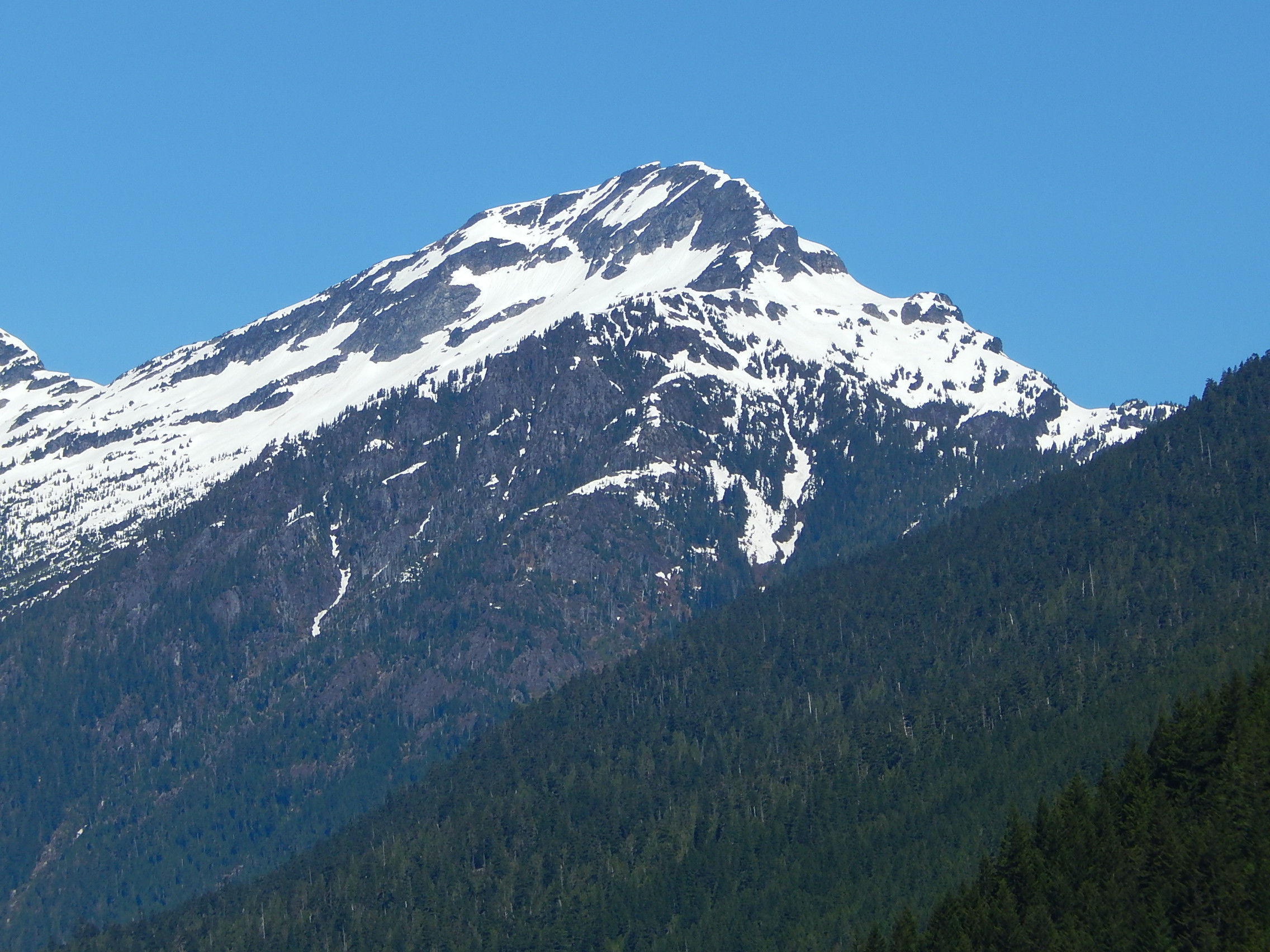 Elephant Butte 7380' in the North Cascades National Park